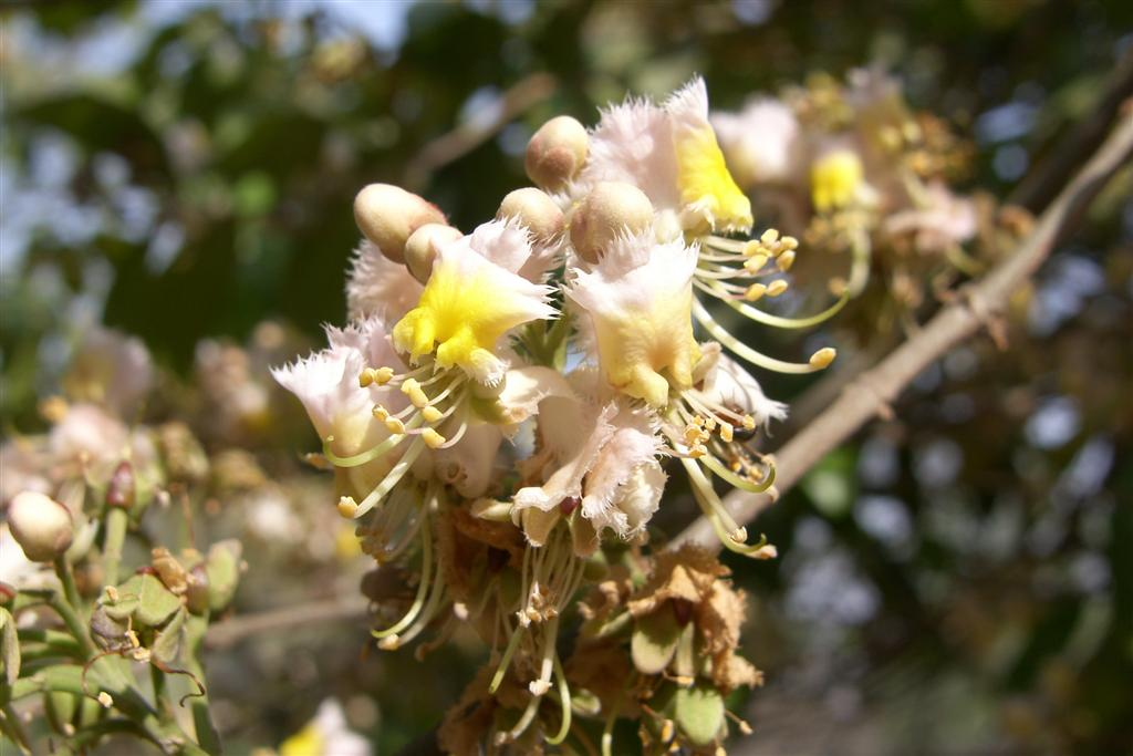 Madhobilota Flower